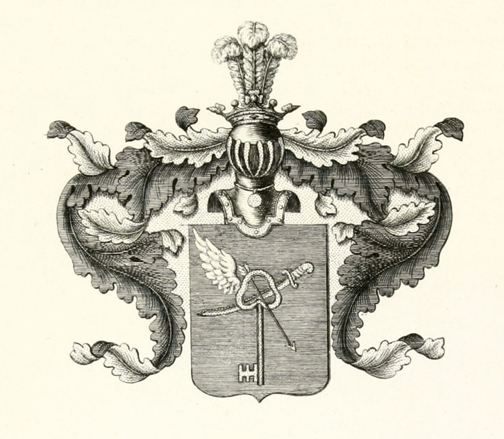 The coat of arms of the Tolstoy family, as illustrated in the 2nd part of the Imperial Gerbovnik, originally published in 1798. The original edition is available online at